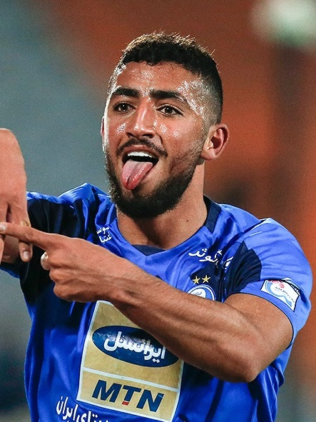 Allahyar Sayyadmanesh